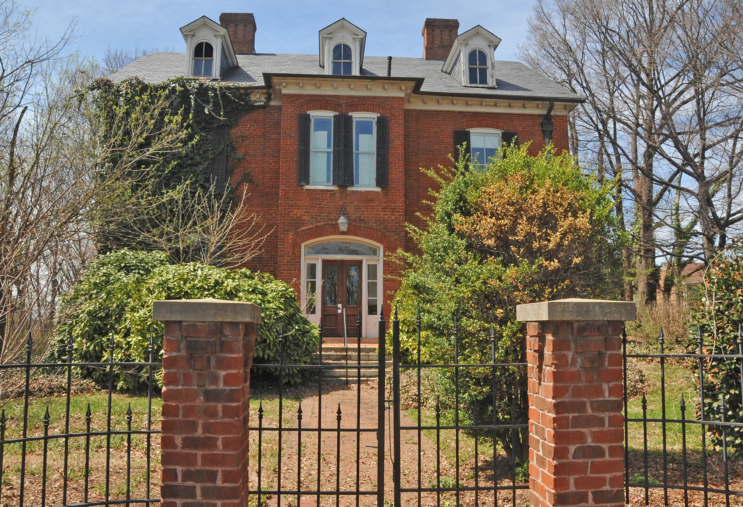 HOUSE WAS BUILTIN 1884 IN ITALIANATE STYLE BY JOHN CALVIN CONRAD, A LEADER IN WINSTON-SALEM’S MORAVIAN COMMUNITY, WHO WAS ALSO ACTIVE IN THE CITY’S CIVIC AFFAIRS. IN 1904, HE SOLD THE HOUSE TO HENRY R. STARBUCK, A PROMINENT NORTH CAROLINA POLITICAL FIGURE, WHO WAS BORN IN WINSTON-SALEM AND WHO PRACTICED LAW HERE FOR OVER 60 YEARS